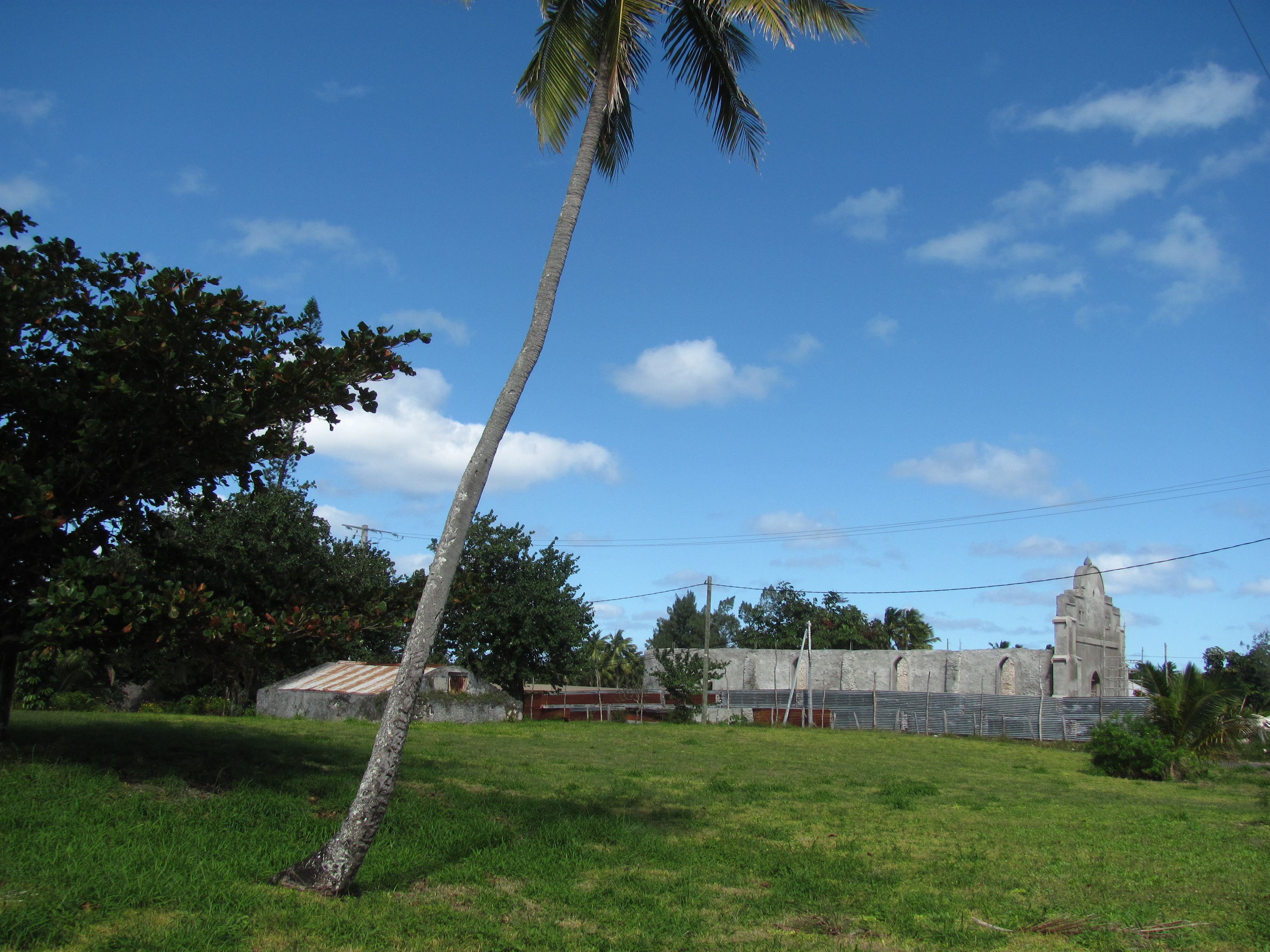 New Protestant Church, Banoutr, Ouvéa Island, New Caledonia